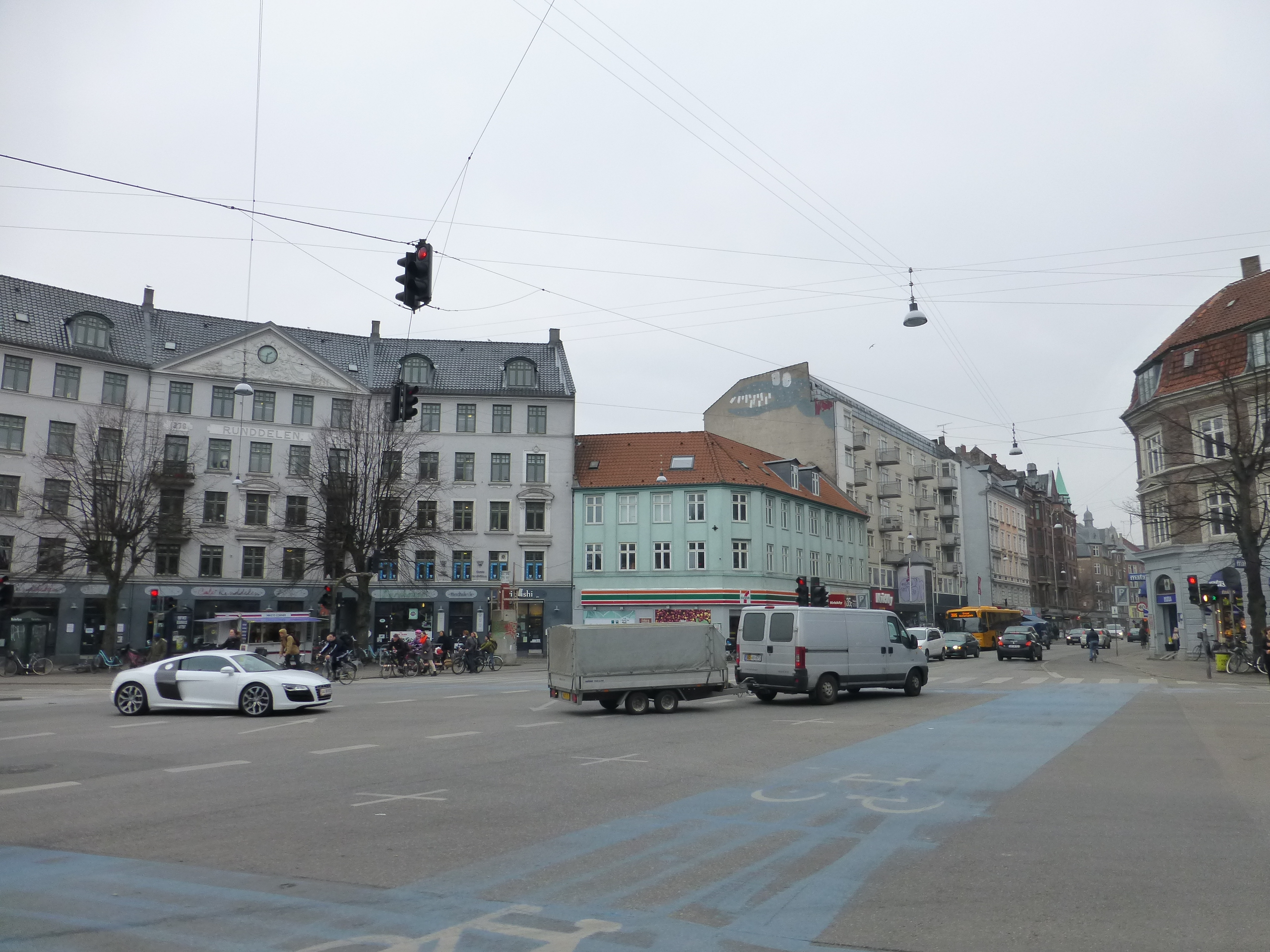 Nørrebros Runddel is a square in Nørrebro in Copenhagen.